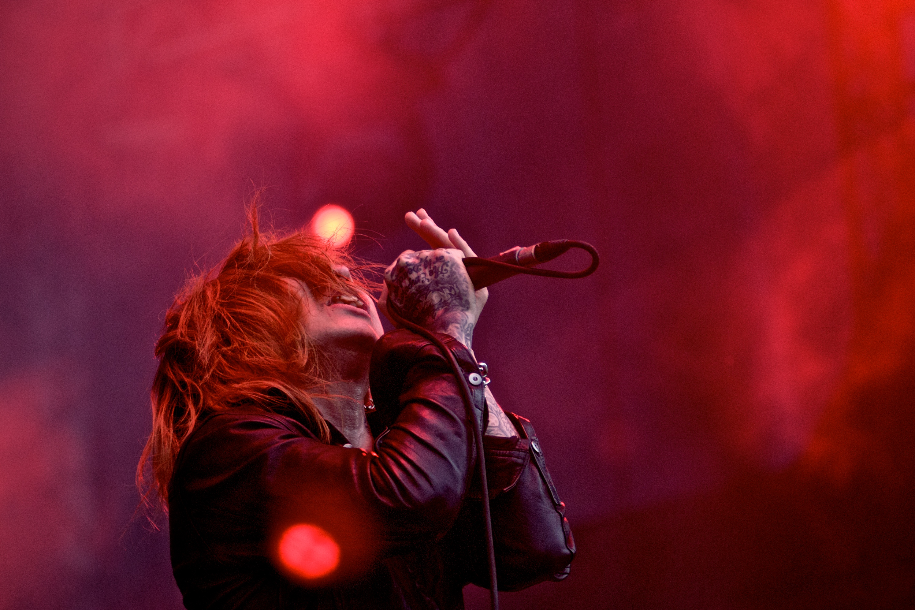 Dir En Grey in Maquinária Festival, occurred in November 8 2009 at São Paulo, Brazil.